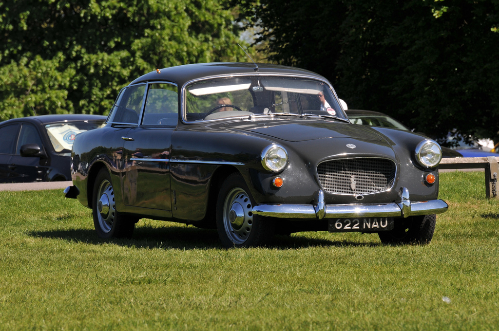 Bristol vehicles, model Bristol 406. The last of 6cly engined cars, but the first of a body style that continued through to the 411 model